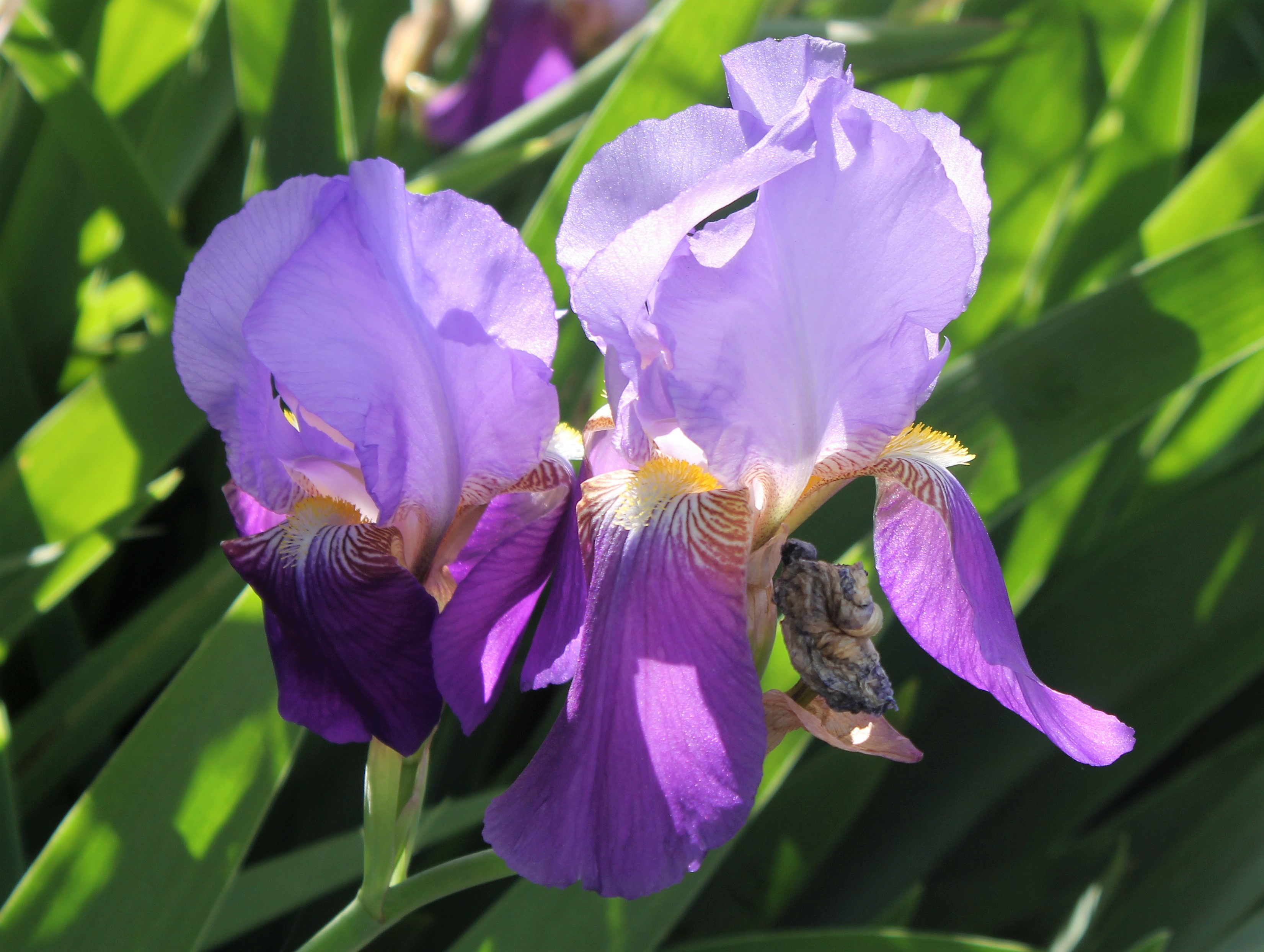 Iris × germanica flower